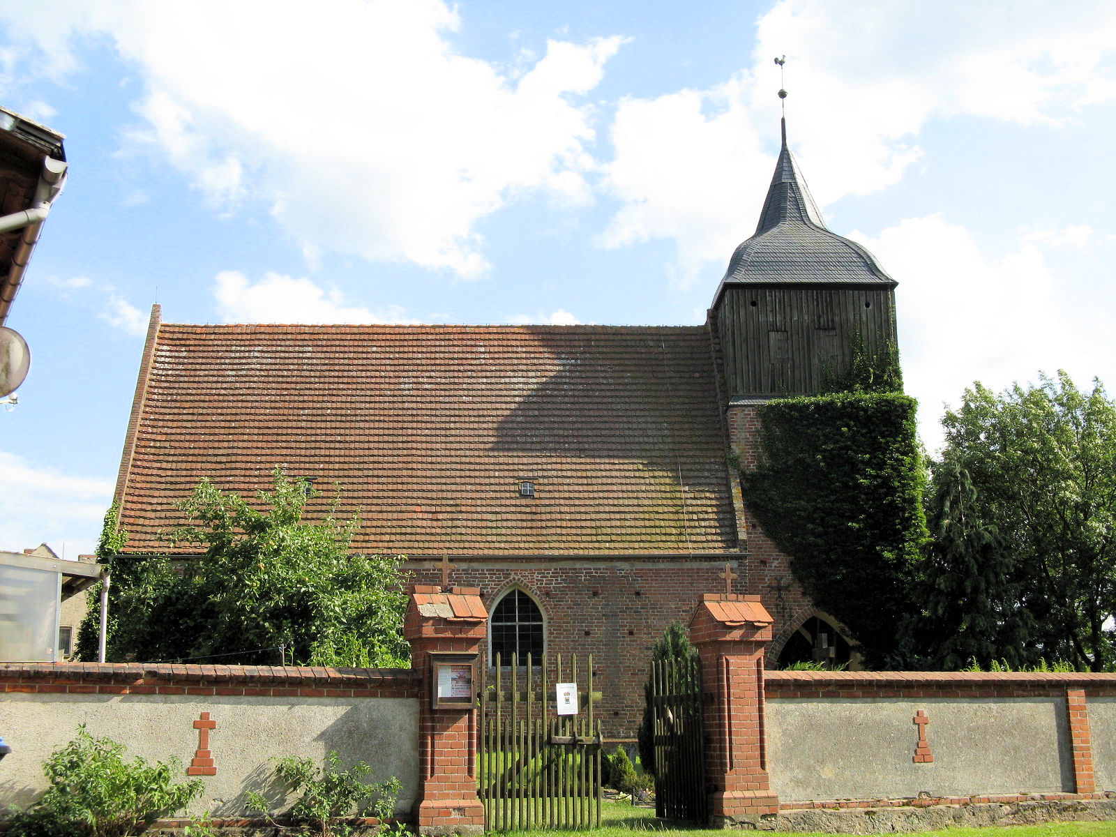 Church in Buchholz, disctrict Mecklenburgische Seenplatte, Mecklenburg-Vorpommern, Germany